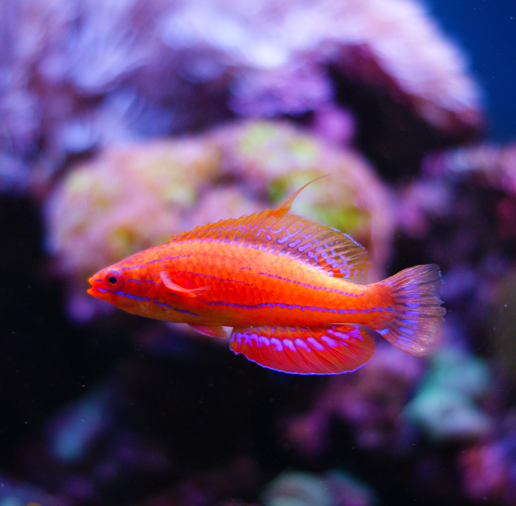 Redfin Flasher Wrasse